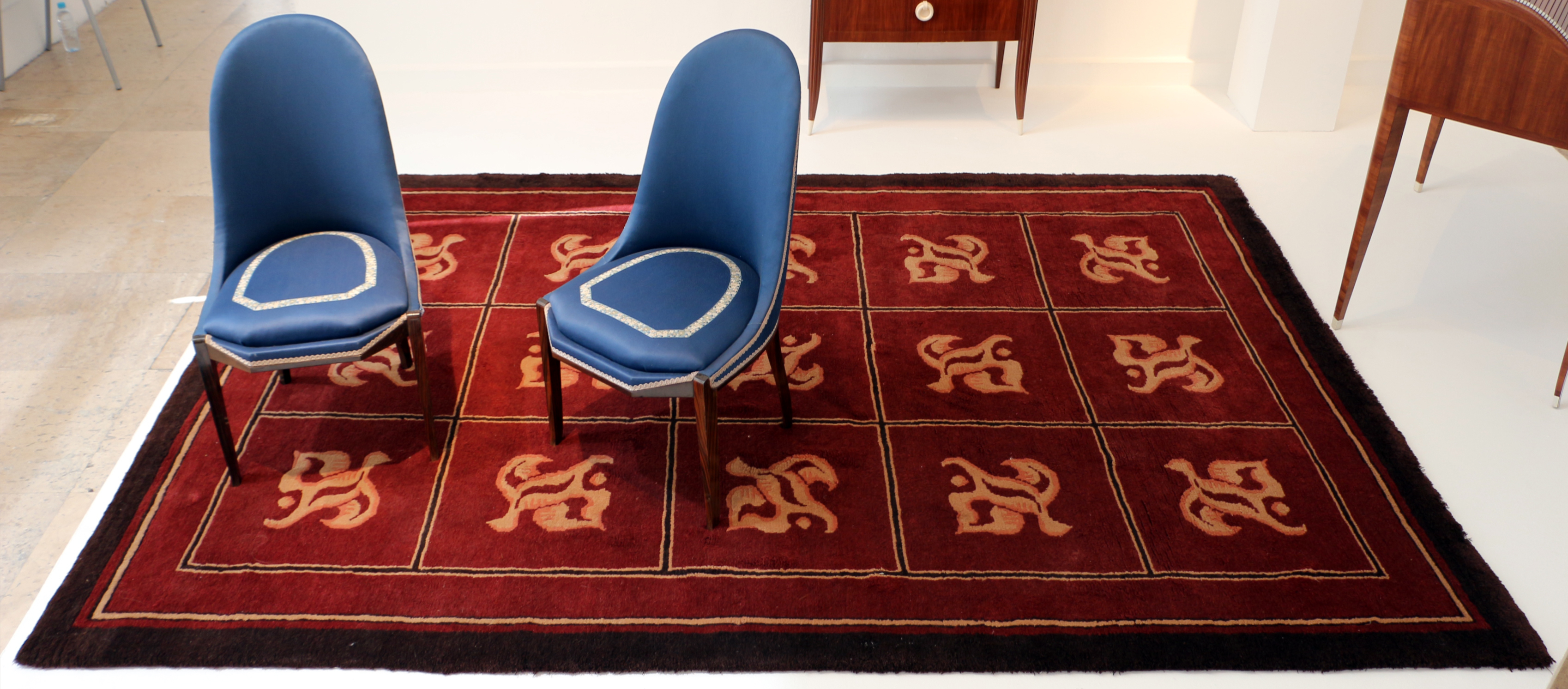 Collections of the Musée d'Art Moderne de la Ville de Paris